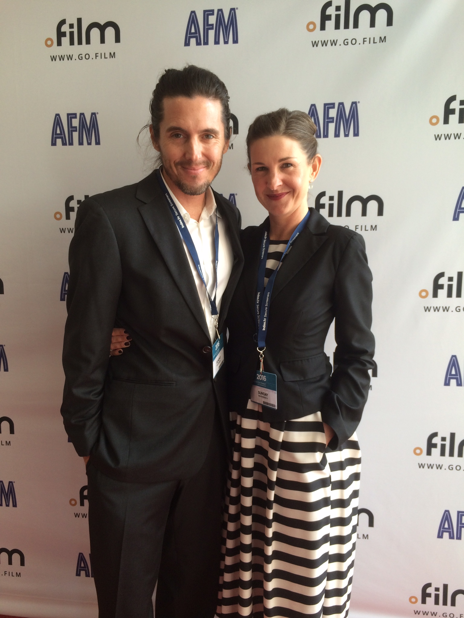 Ben Sharples and Marissa Hall at the American Film Market